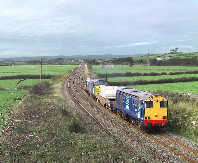 Nuclear waste flask train between Cark and Cartmel railway station and Kents Bank railway station.